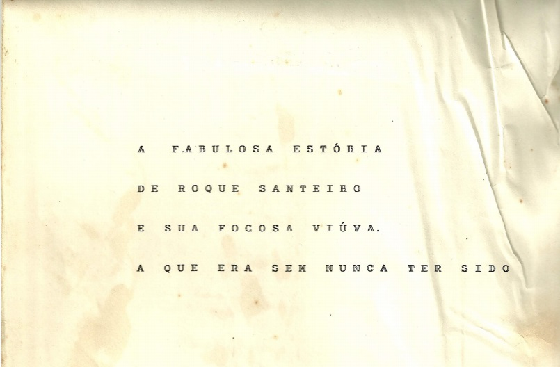 Title of Roque Santeiro script